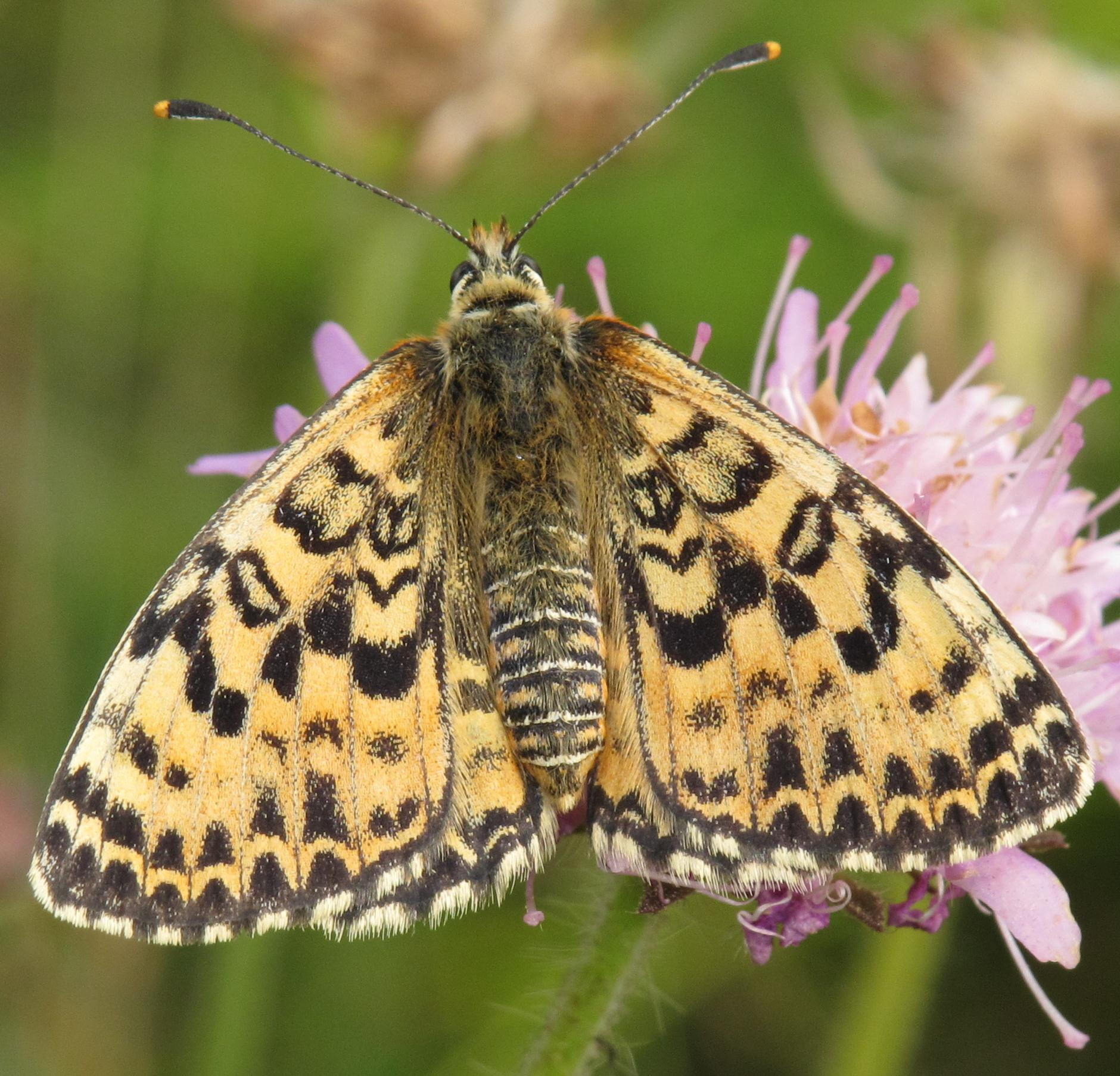 female specimen of Melitaea didyma, near Oberfinilu (VS), Switzerland